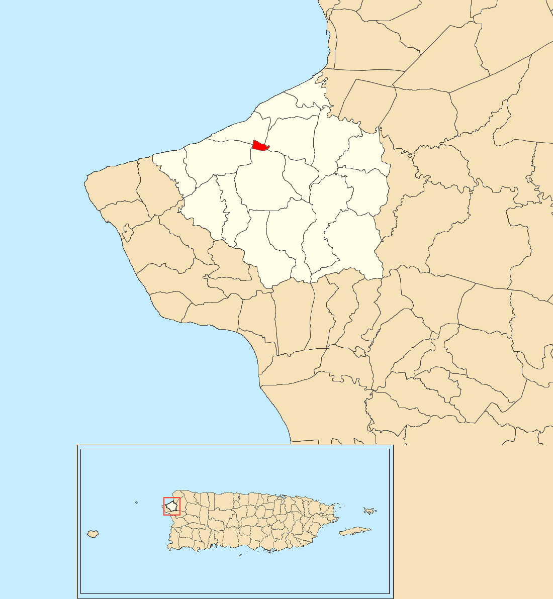 Aguada barrio-pueblo, Aguada, Puerto Rico locator map